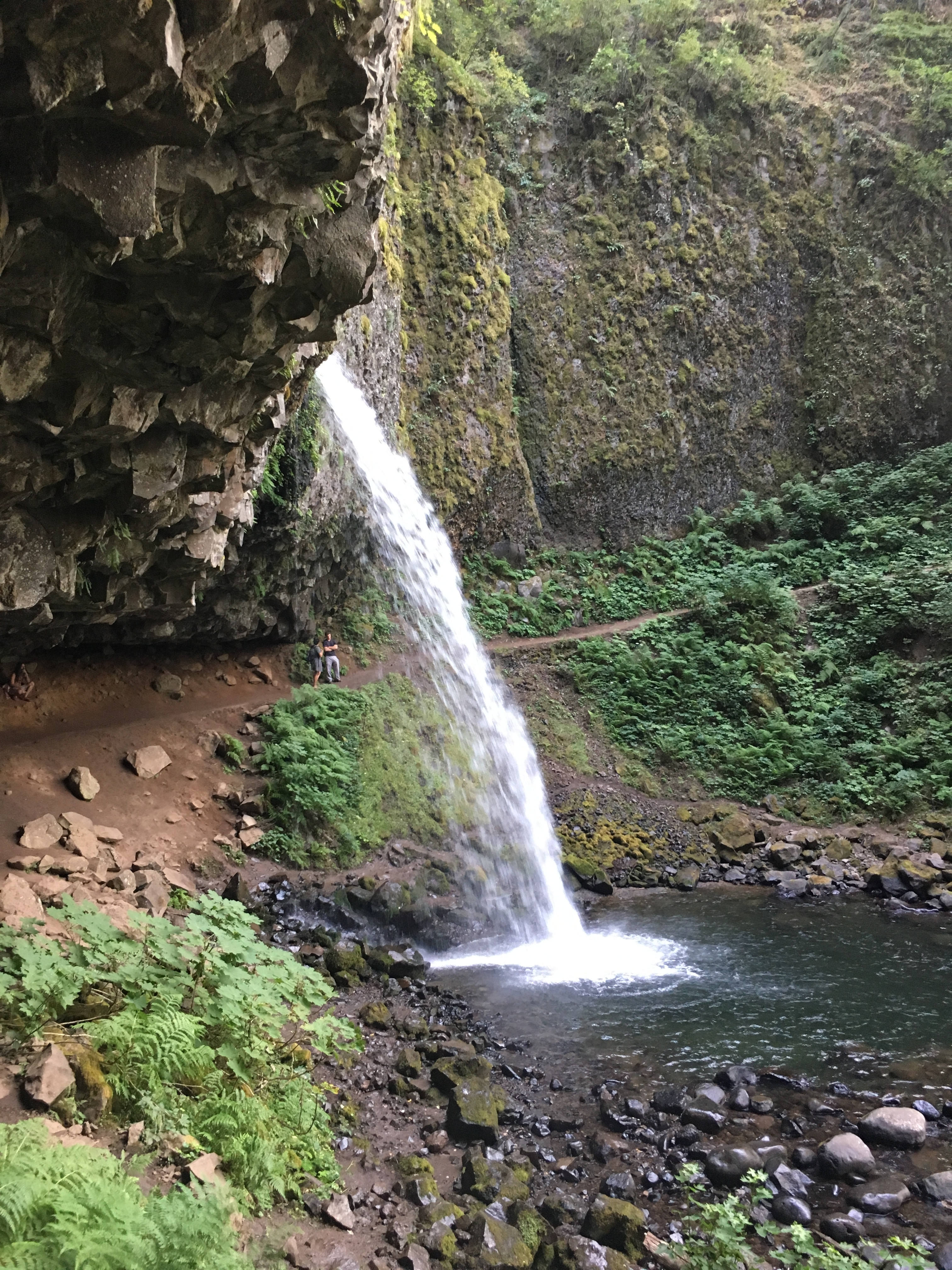 Ponytail Falls, Oregon (upstream of Horsetail Falls) in the Columbia River Gorge in August 2017